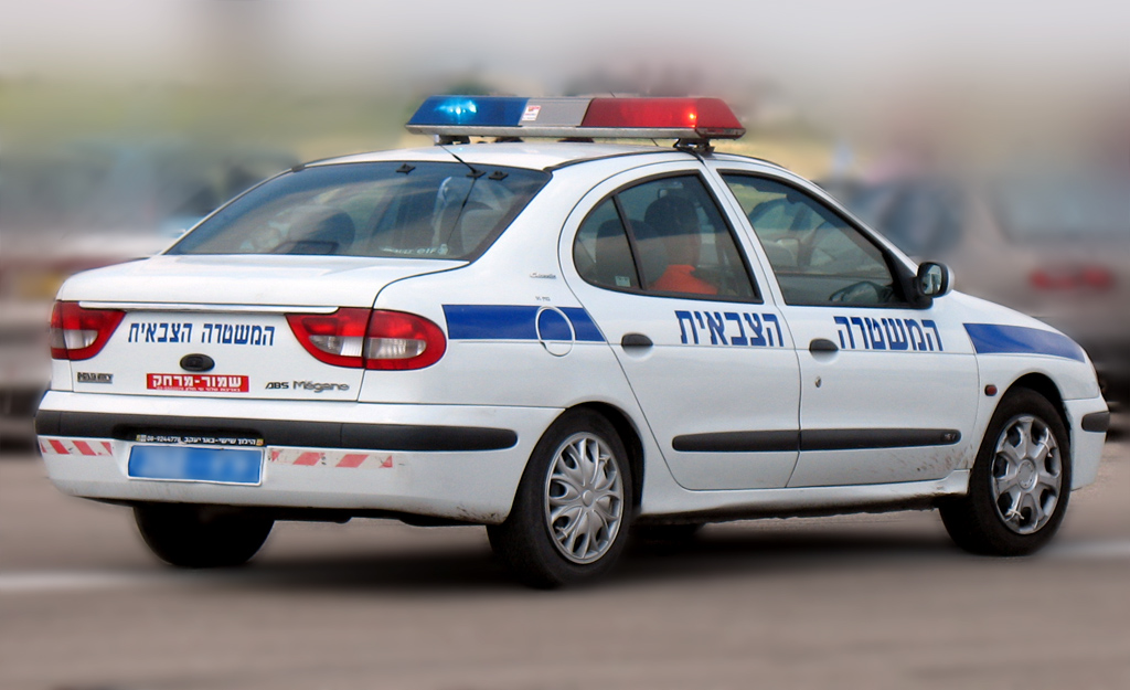 An Israeli military police patrol car, a Renault Megane. The image has been significantly edited, in order to cut out the background, which may compromise the area's security.